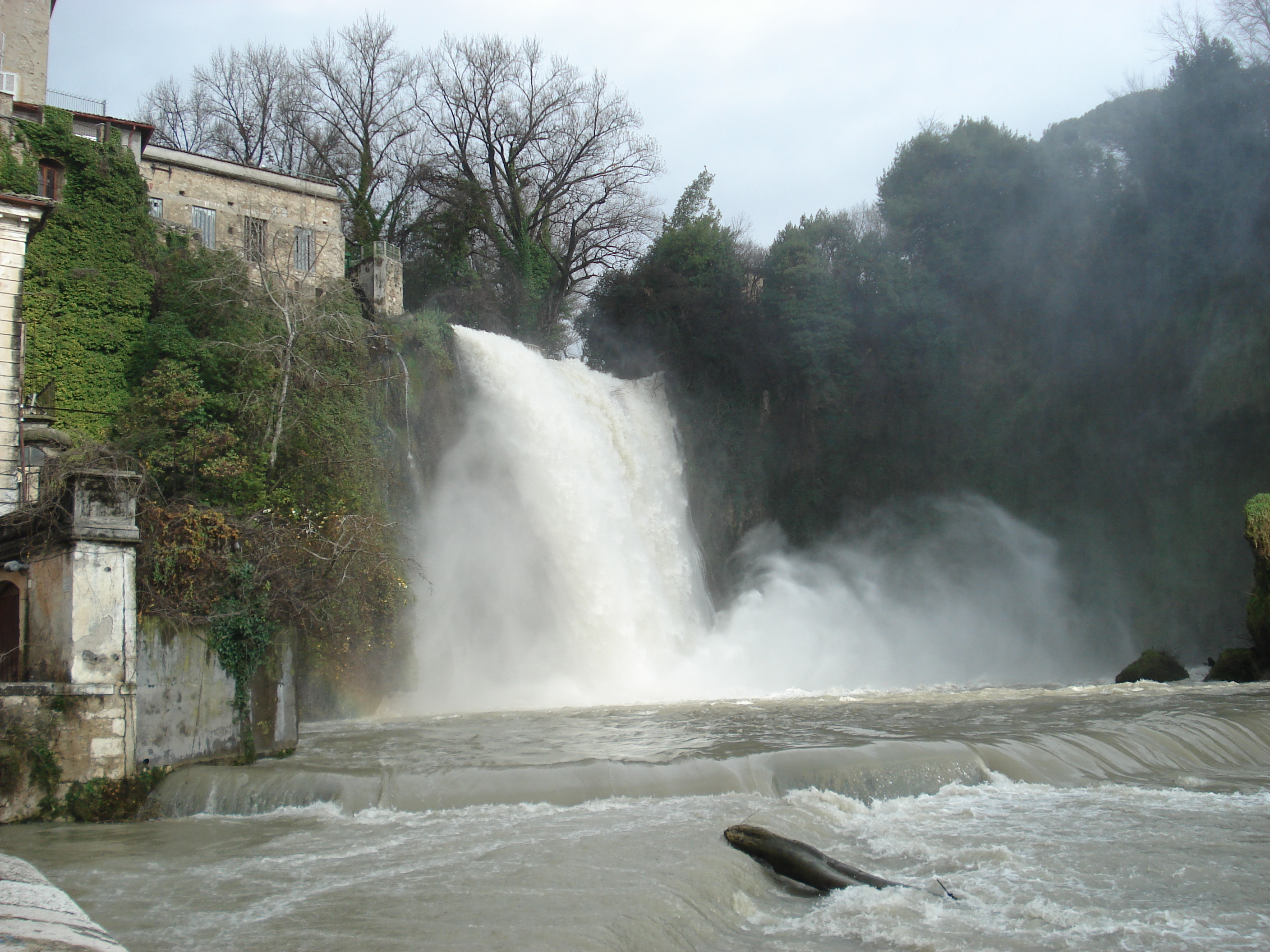 The c- 30 m-high waterfall, Cascata Grande, in Isola del Liri, Italy.